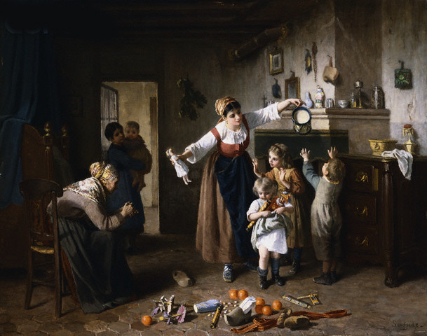 Christmas Morning